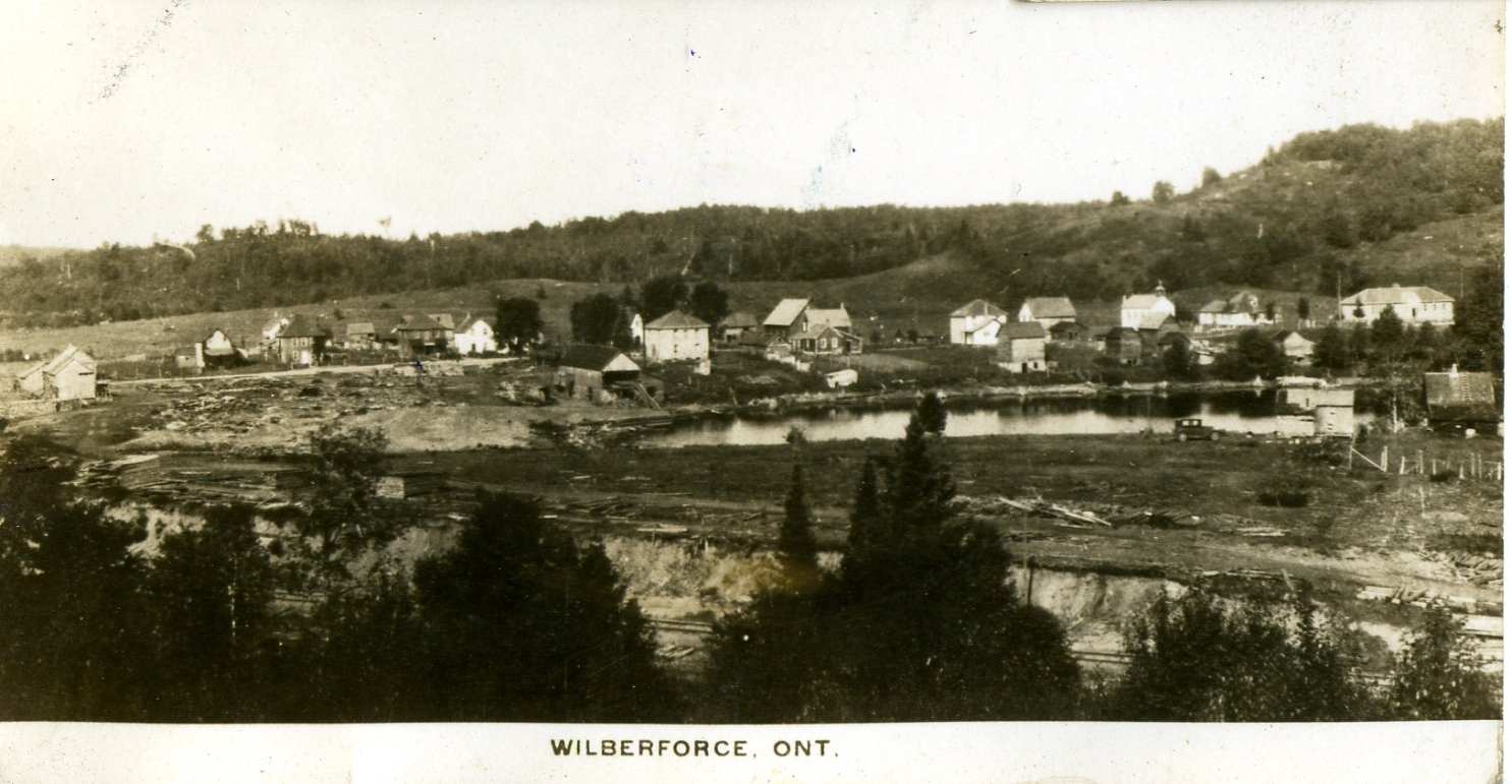 Postcard of Wilberforce, Ontario, Canada.